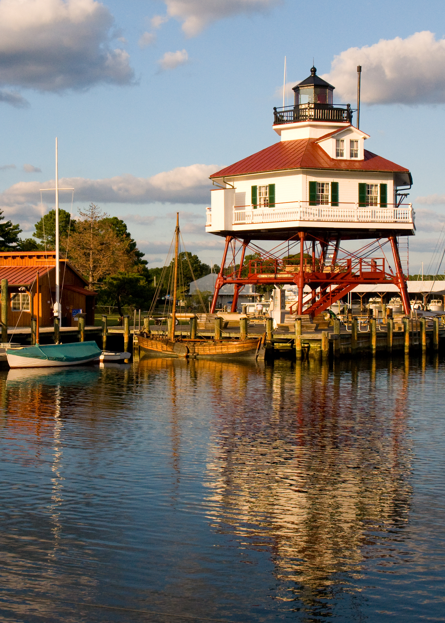 A wide view of Drum Point Light. It was built in 1883 at the mouth of the Patuxent River. It was later moved to the Calvert Marine Museum in Solomon's for restoration and preservation purposes. This site was selected for a Heritage Fund Grant in 2013.